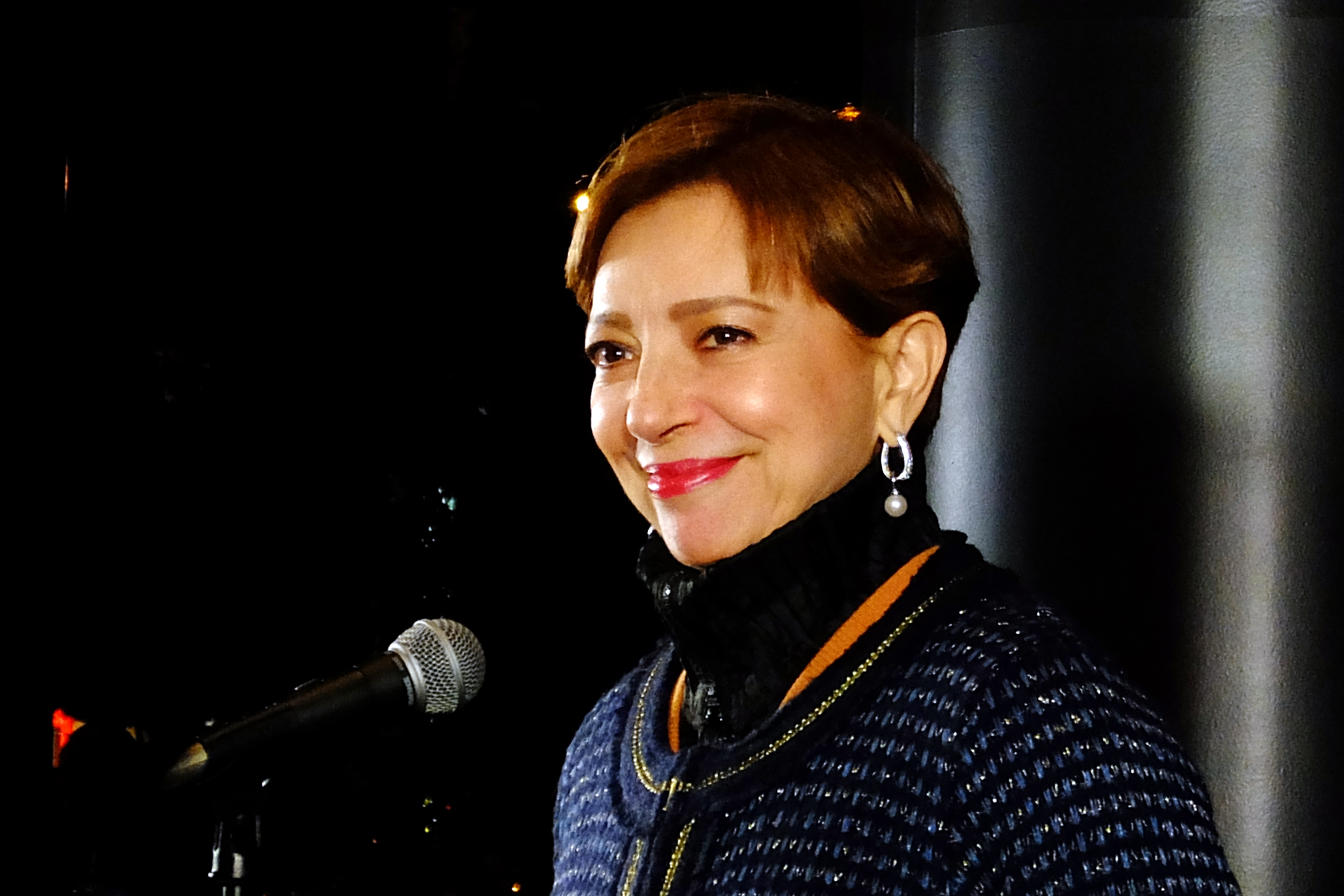 Ran Ohtori at Osaka, Osaka prefecture, Japan